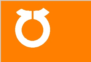 Flag of Hirata Fukushima